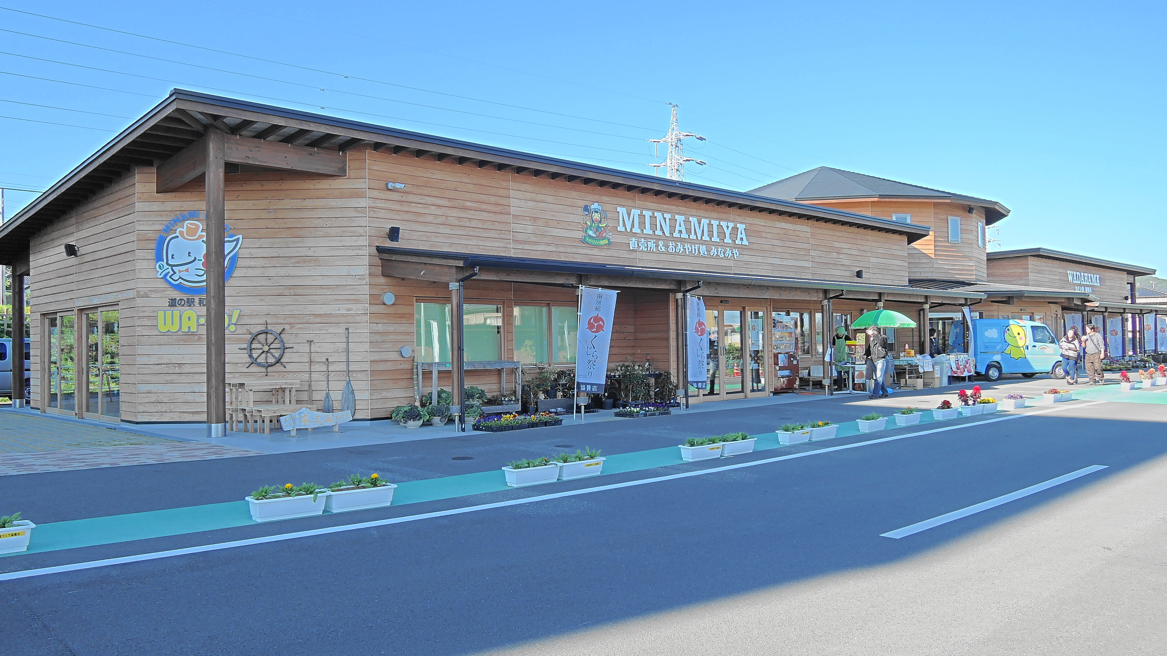 Roadside station Wadaura WA・O!,Chiba prefecture,Japan